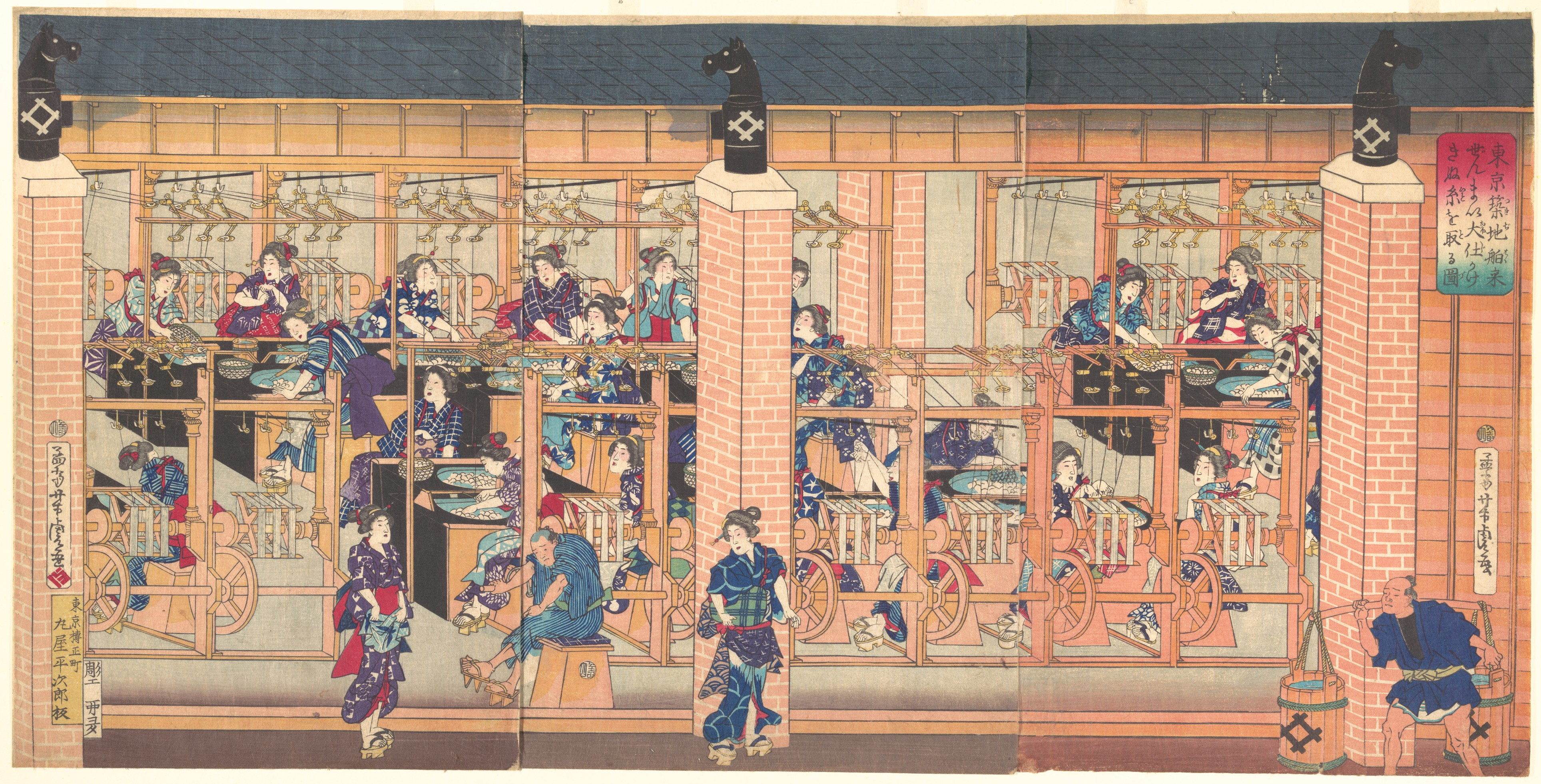 Imported Silk Reeling Machine at Tsukiji in Tokyo